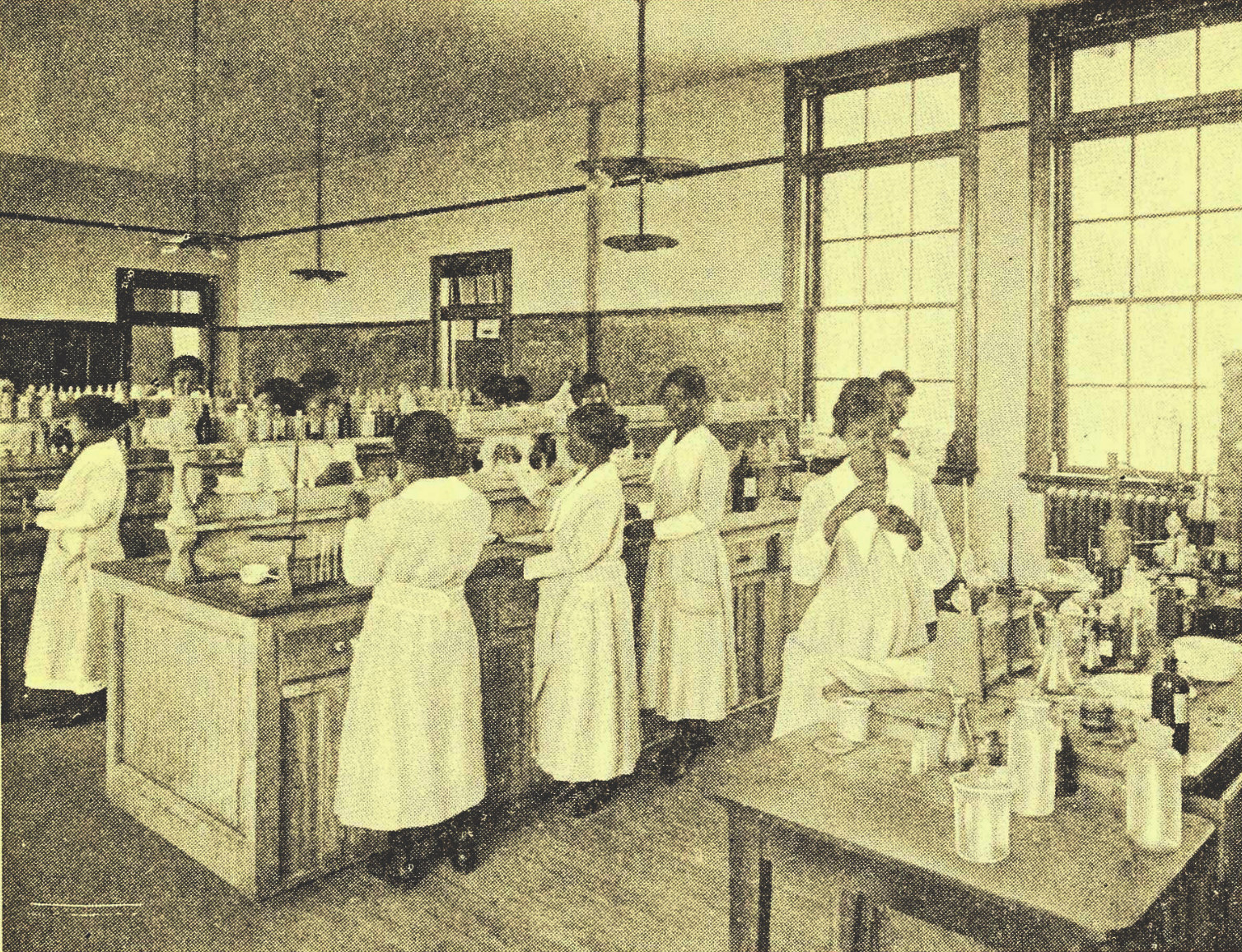 Photograph of a chemistry class at Tuskegee Institute